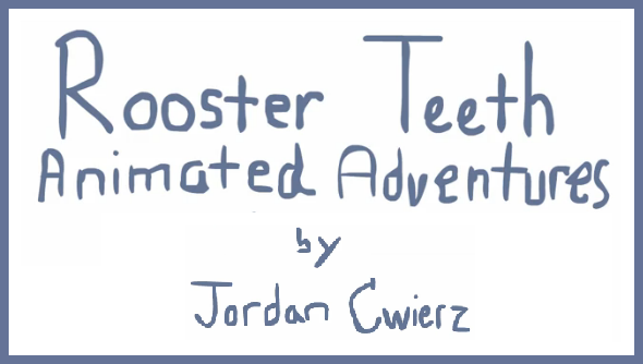 Logo or title card of Rooster Teeth Animated Adventures, a weekly animated web series published by Rooster Teeth. The full text of the image reads "Rooster Teeth Animated Adventures by Jordan Cwierz".